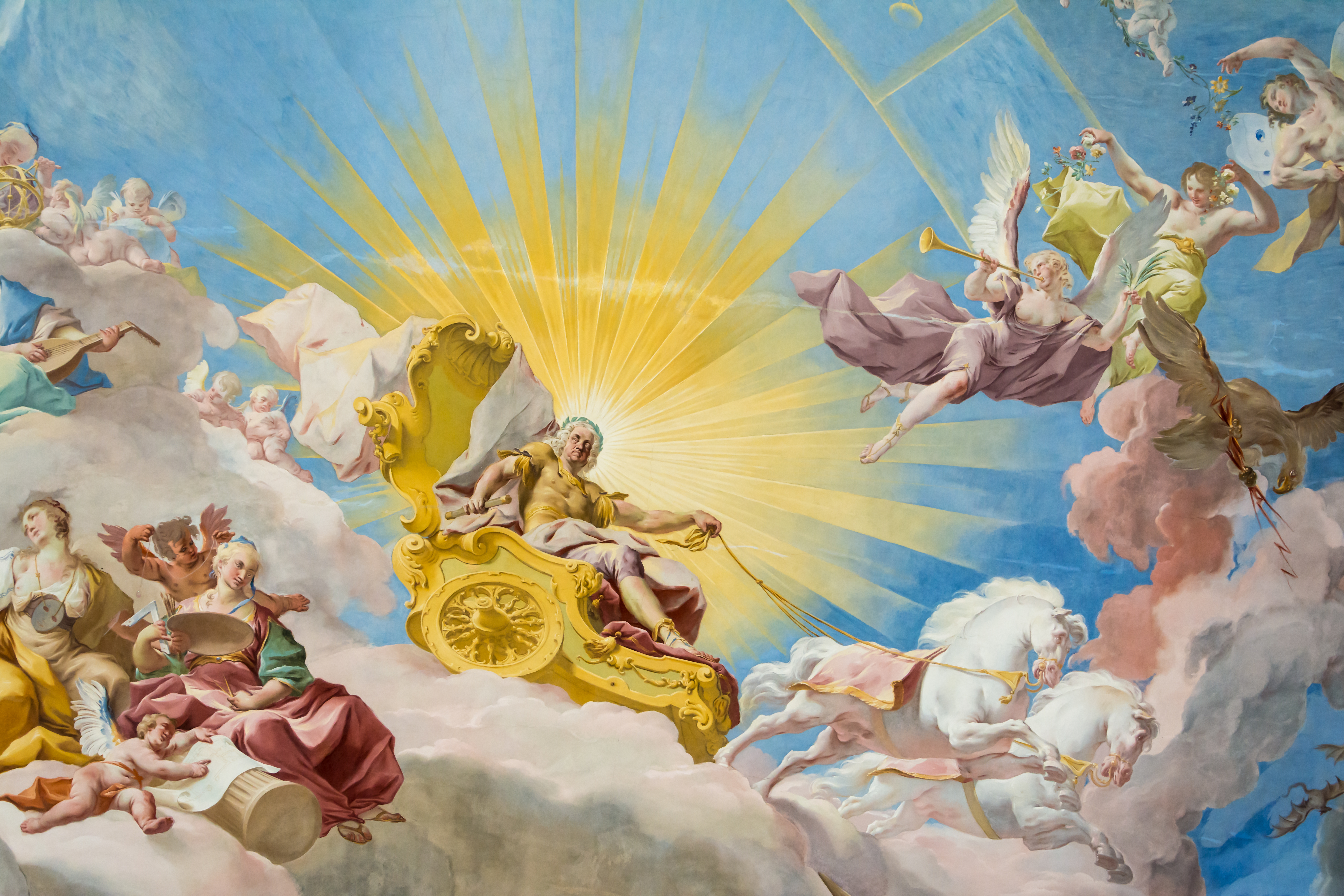 Ceiling fresco of the Imperial Staircase of Göttweig Abbey by Paul Troger (1739): Apotheosis of Emperor Charles VI. (detail)